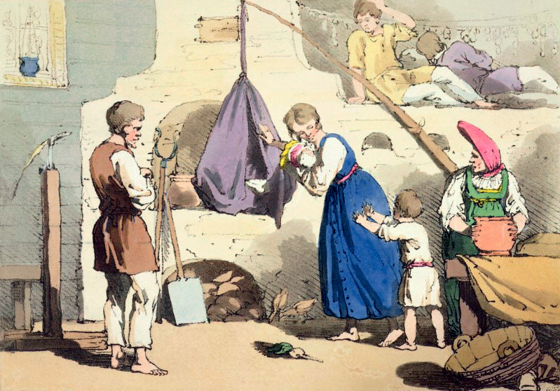 Isba, Etched by the Artist, Published 1803